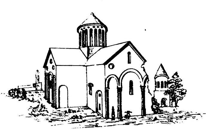 The Tbeti church. The original drawing was made by Colonel Giorgi Kazbegi during his reconnaissance journey to Ottoman Georgia in 1873